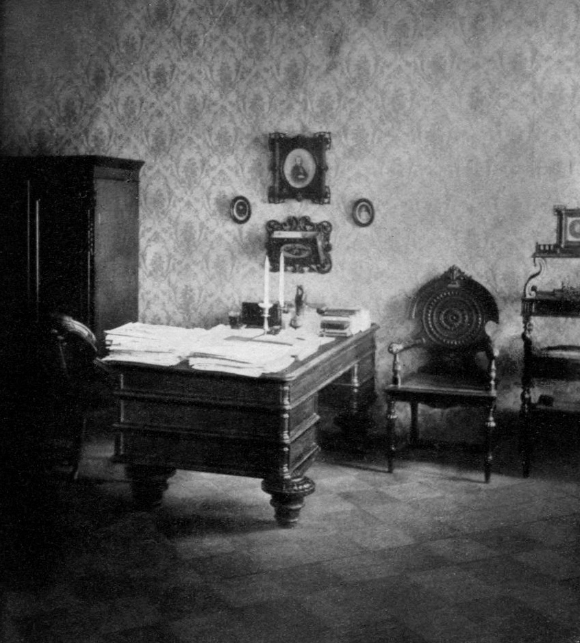 Dostoyevsky's Study